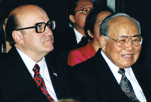 Dr. R. L. Hymers and Dr.Lin taken October 12,2004 at the Calvary Road Baptist Church located at 319 W. Olive Ave. in Monrovia, California